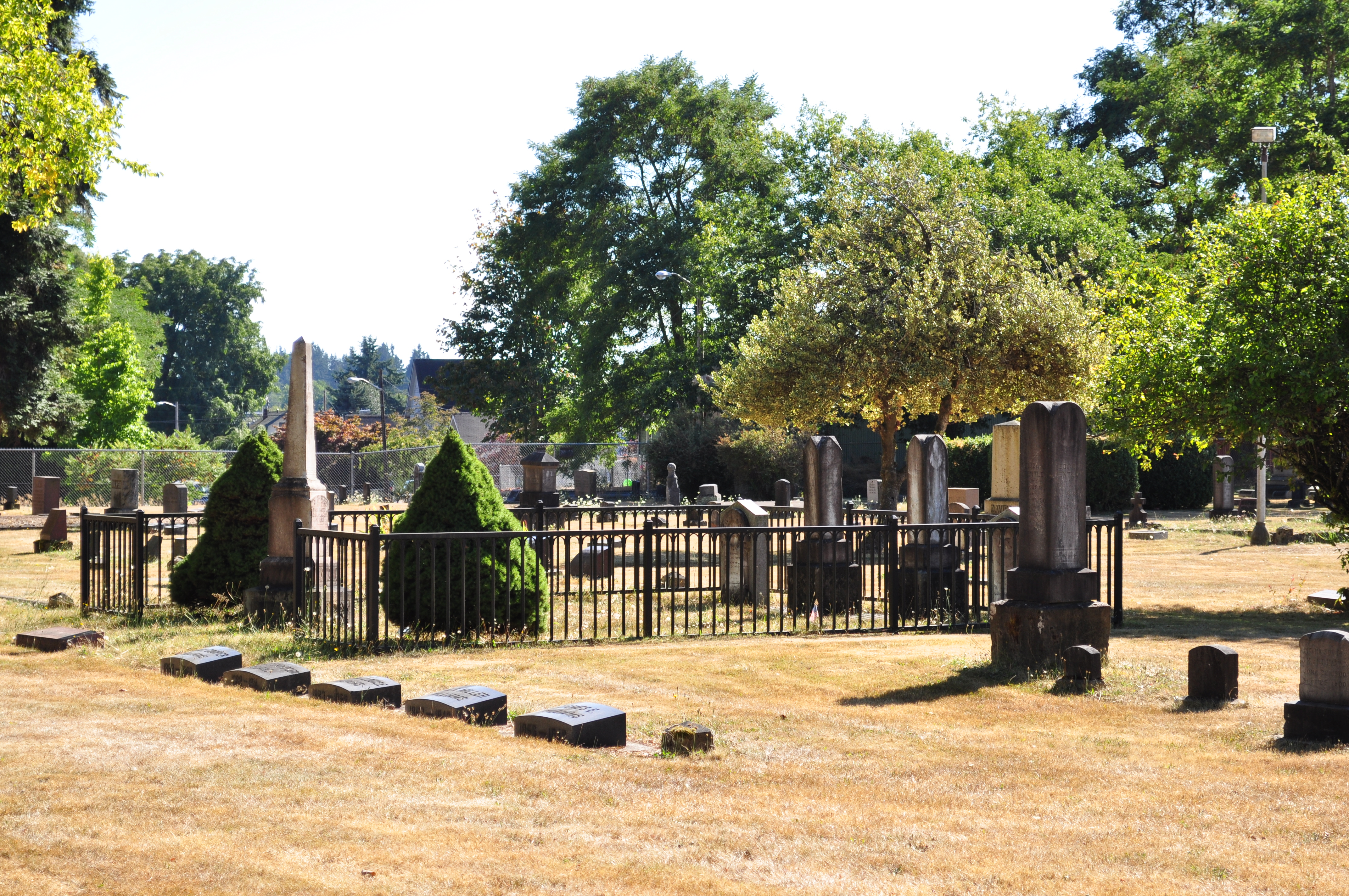 Washington Lawn Cemetery, Centralia, Washington, USA. The fenced area at the center of the cemetery contains the graves of some of the founders of Centralia.